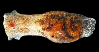 Photo of dorsal view of a live Haminoea sp.